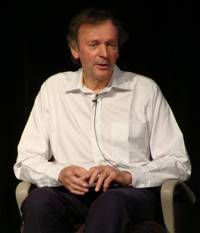 Rupert Sheldrake, Toward a Science of Consciousness, Tucson, Arizona